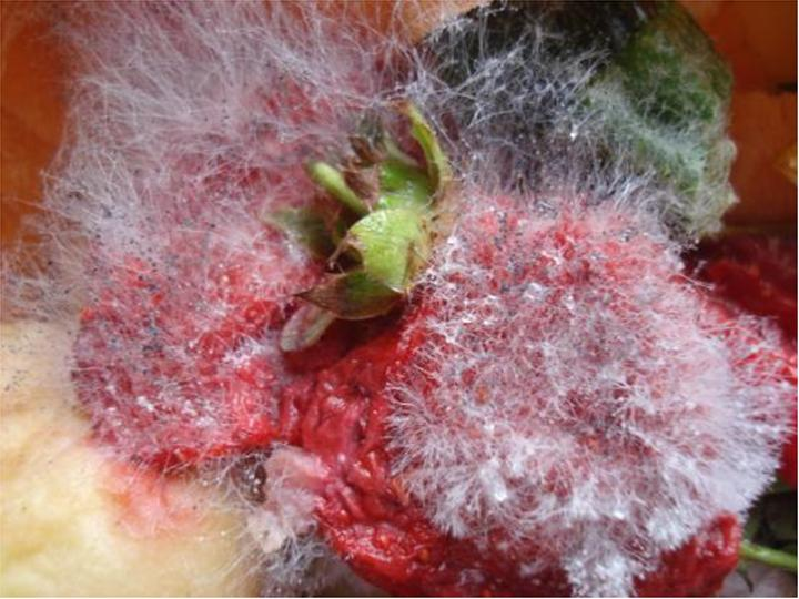 Rhizopus stolonifer on a strawberry showing black sporangia